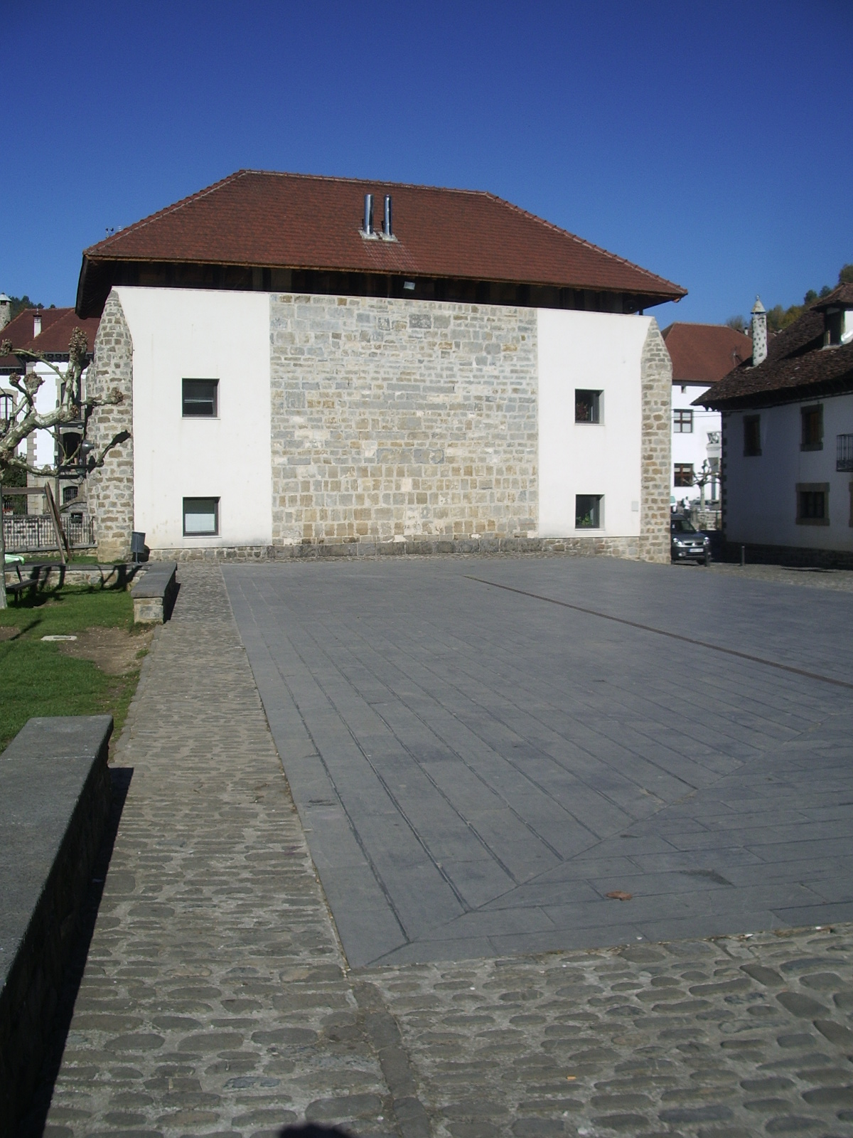 Pelota court, Blankoa plaza, Urrutia neighbourhood (Otsagabia, Navarre)